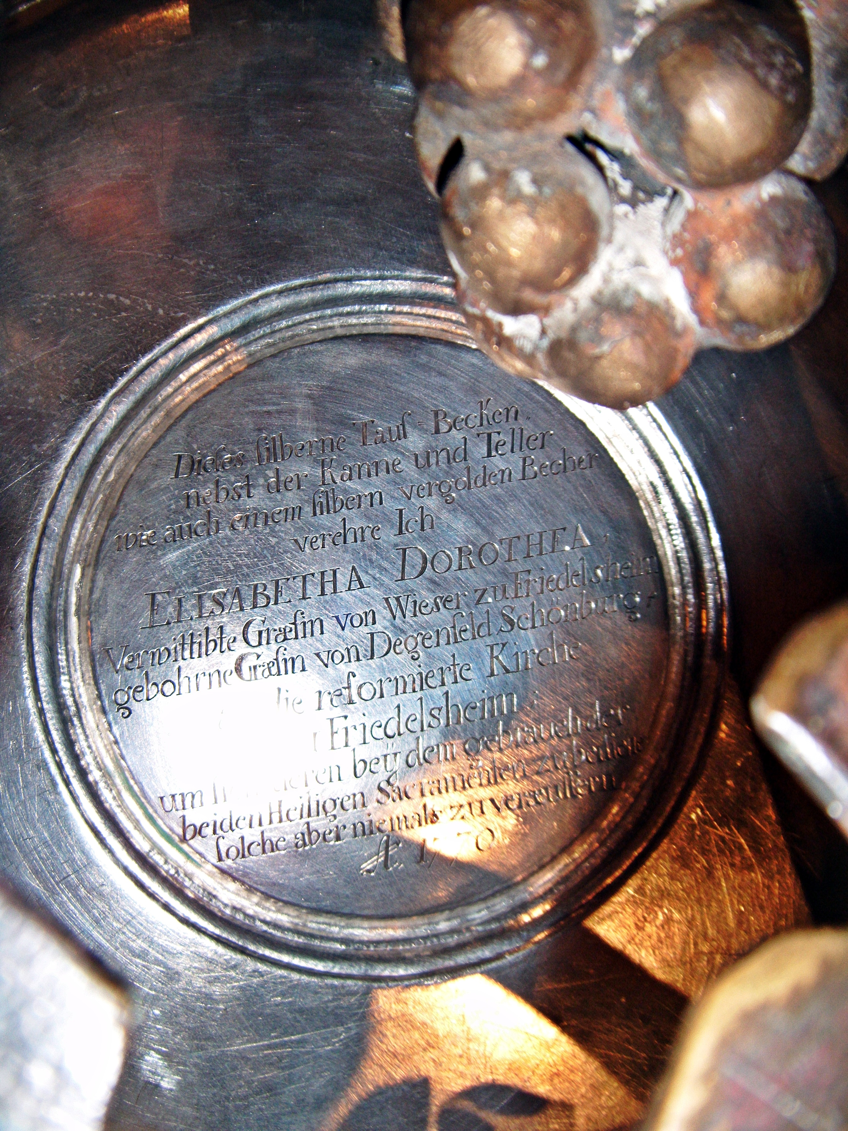 Friedelsheim, Protestantische Kirche, Taufschale der Gräfin von Wiser, Widmungsinschrift, 1770